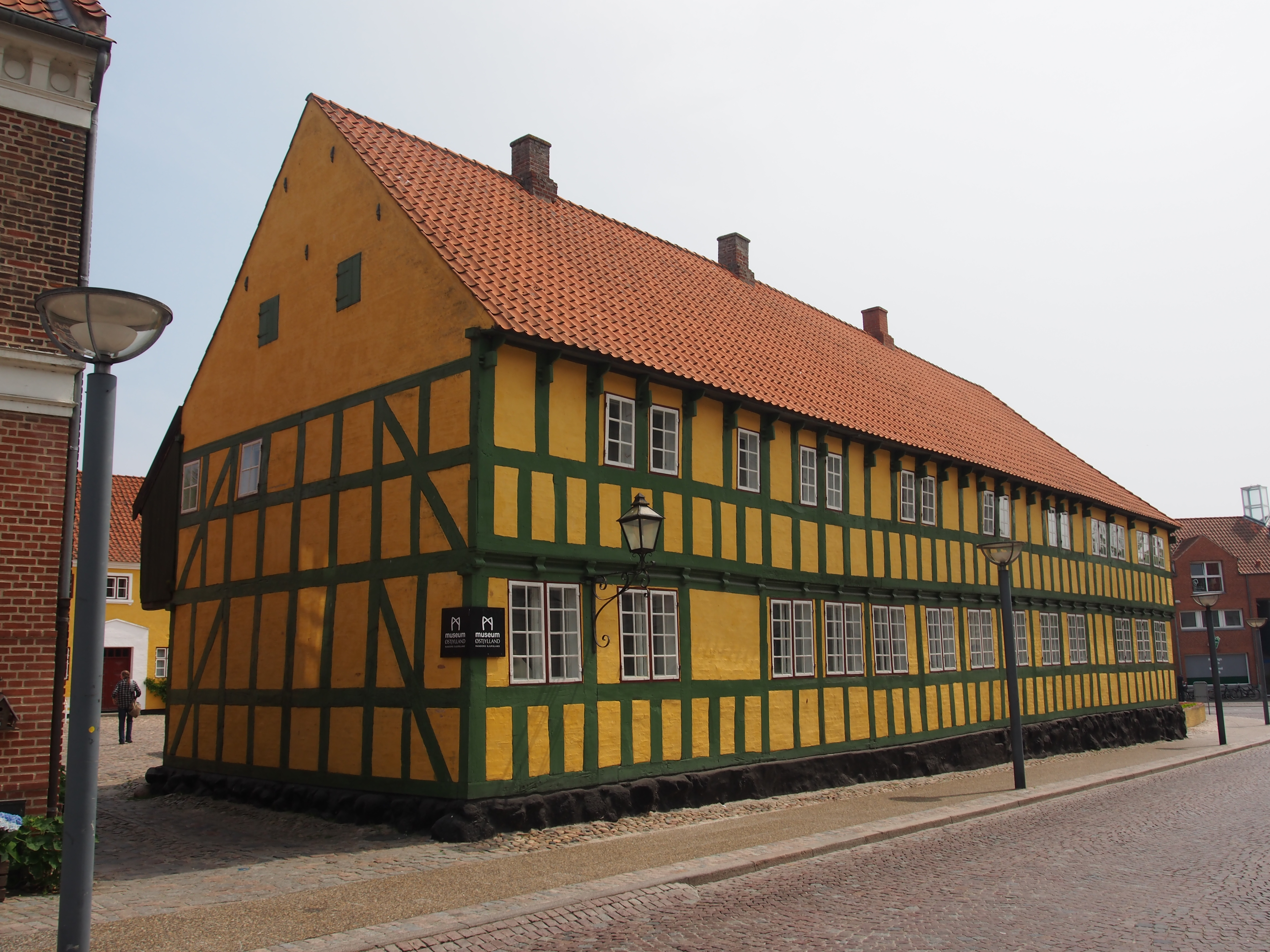 Photographed at Grenaa, Denmark.